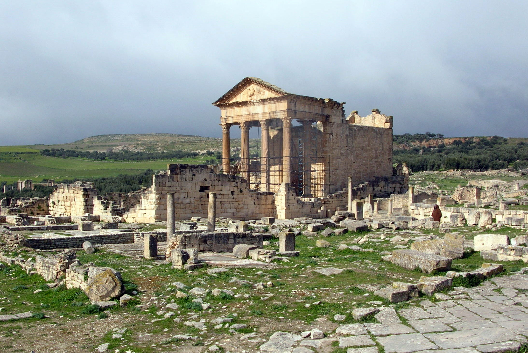 Capitoline temple, Dougga, Tunisia